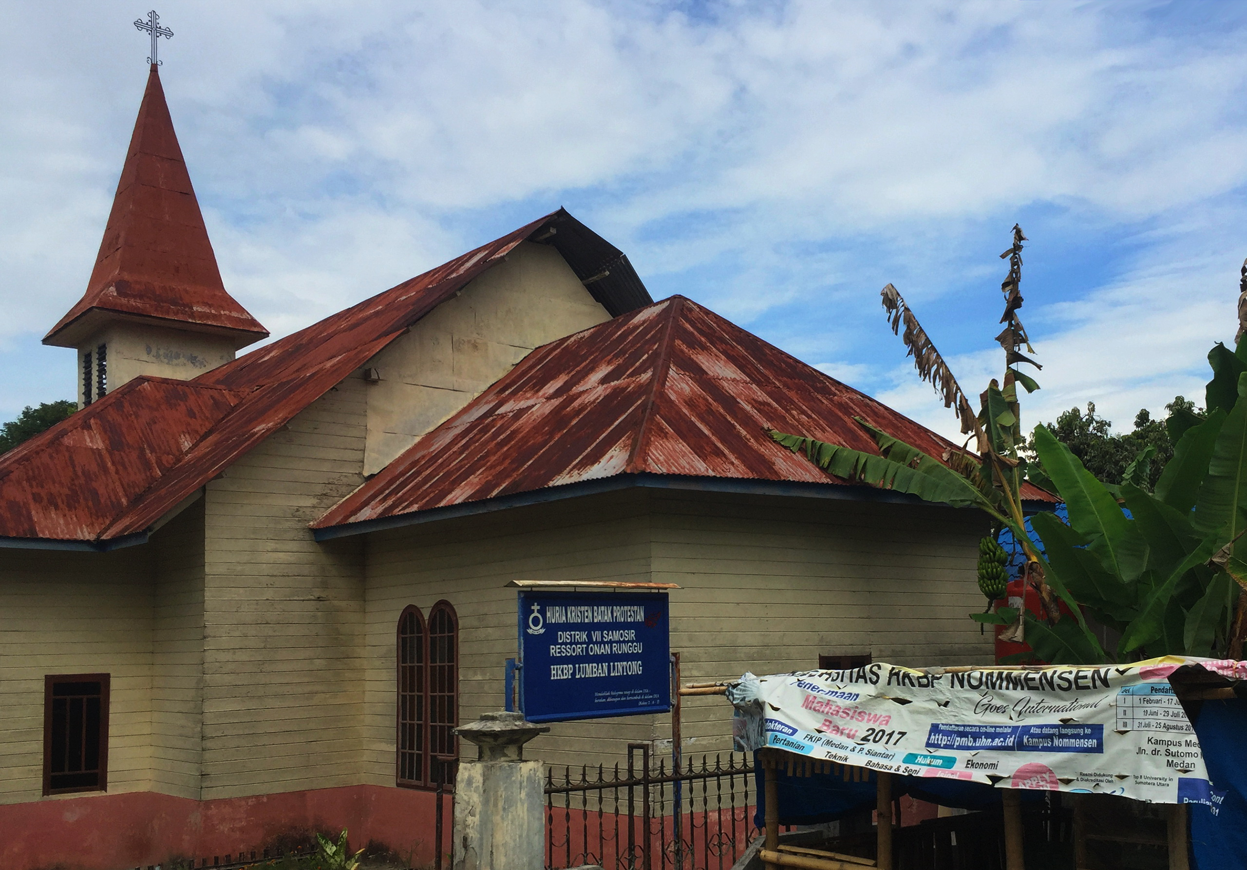 HKBP Lumban Lintong, Church in Onan Runggu, Samosir